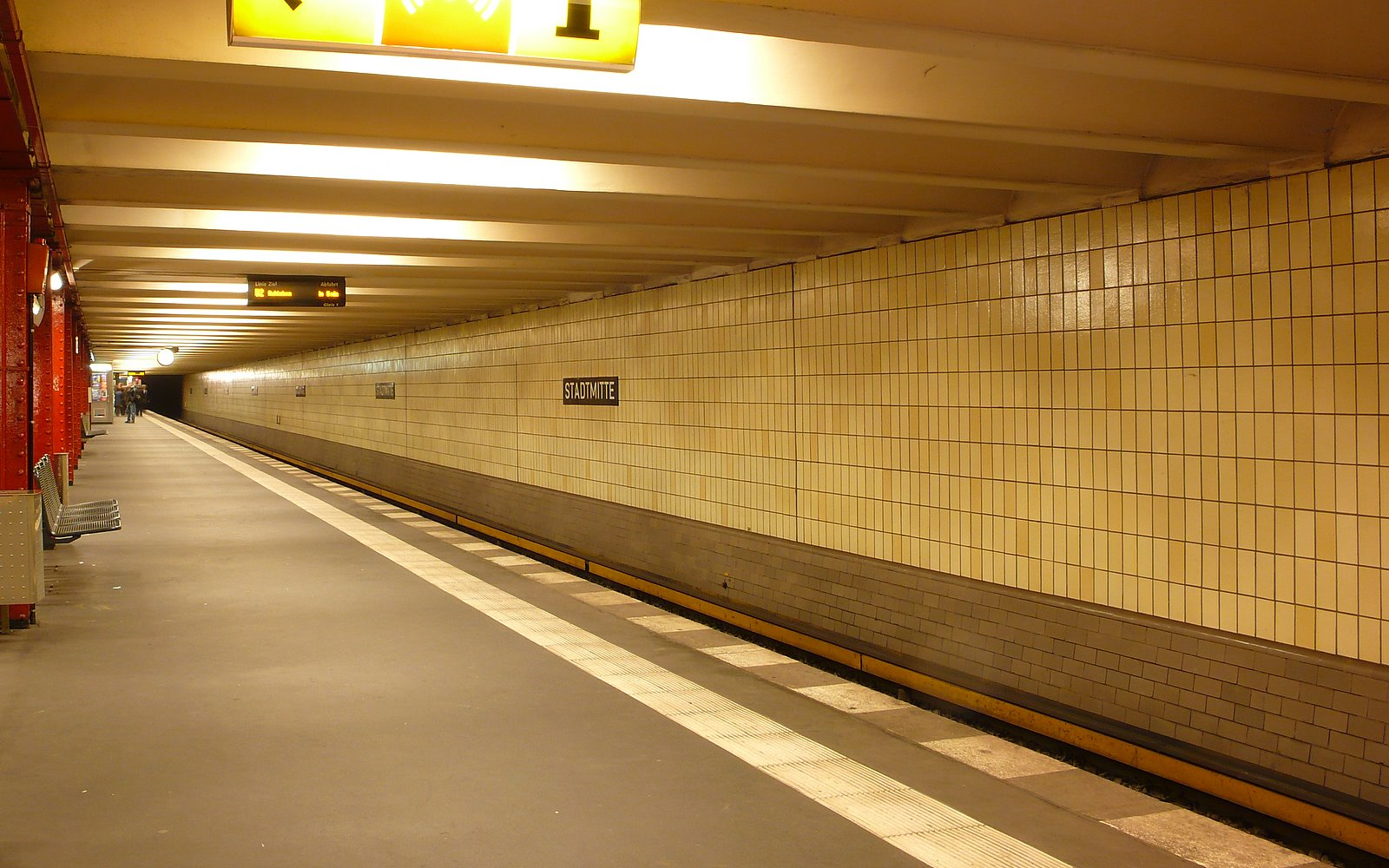 Stadtmitte subway u2 berlin